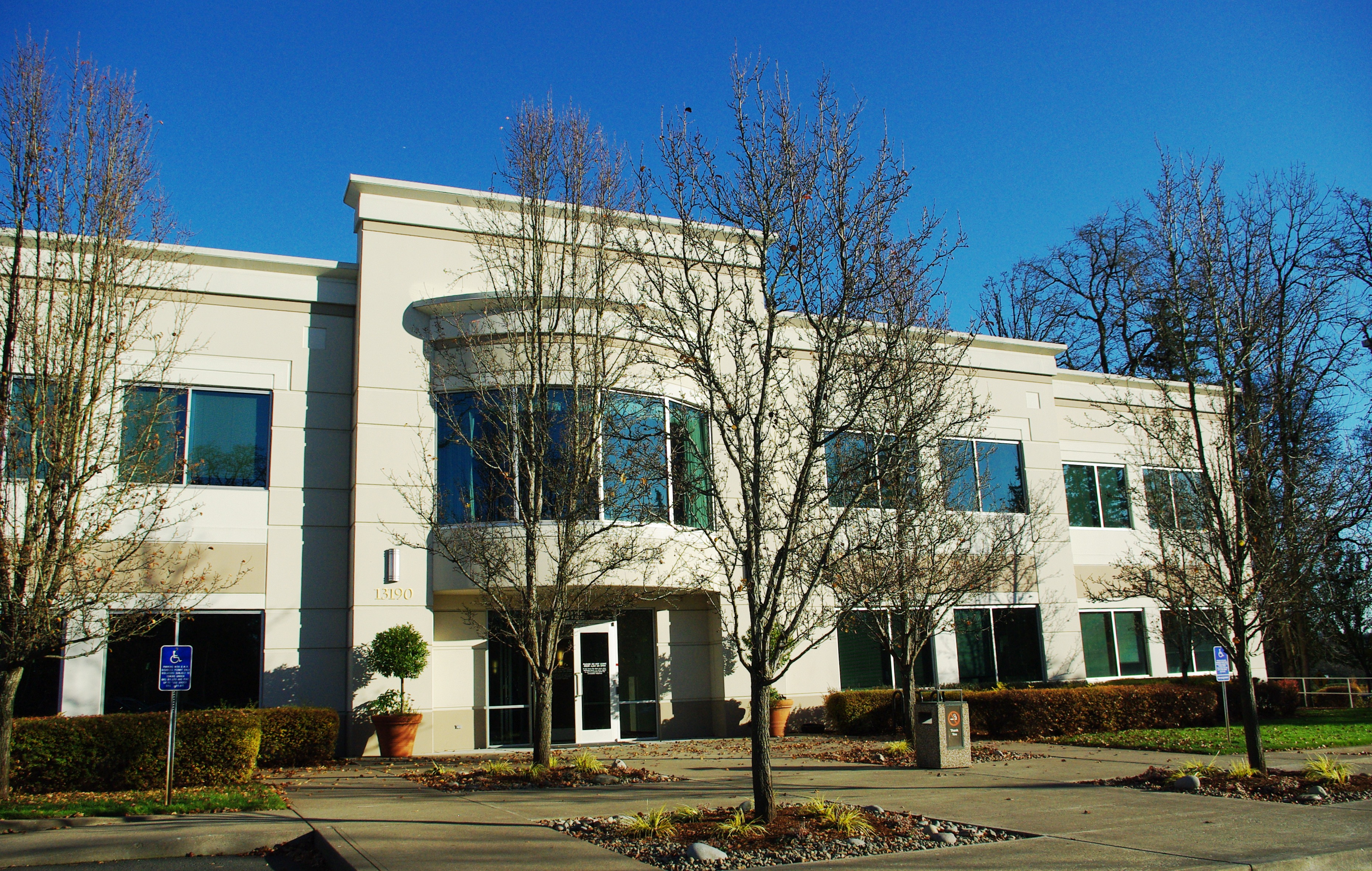 New headquarters as of December 2009 for InFocus company.